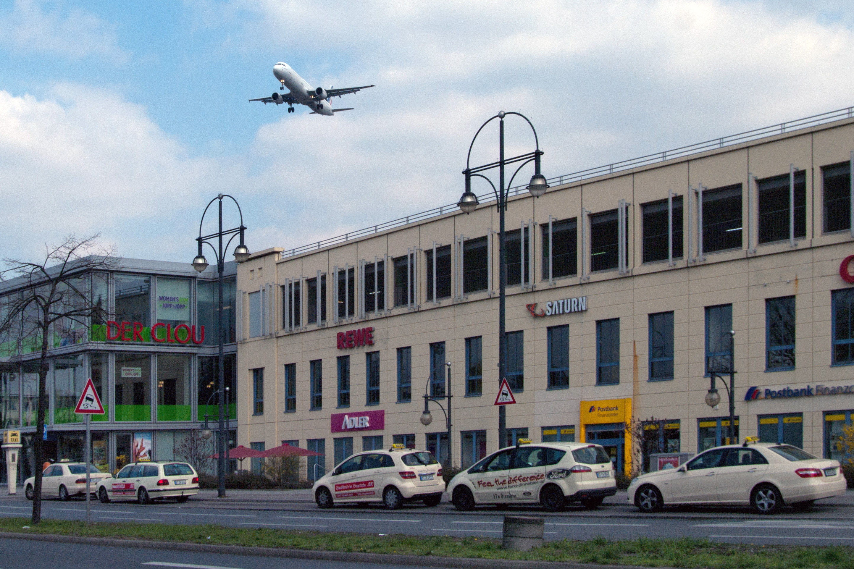 Air France plane flying over the Kurt-Schumacher-Platz towards Tegel Airport.